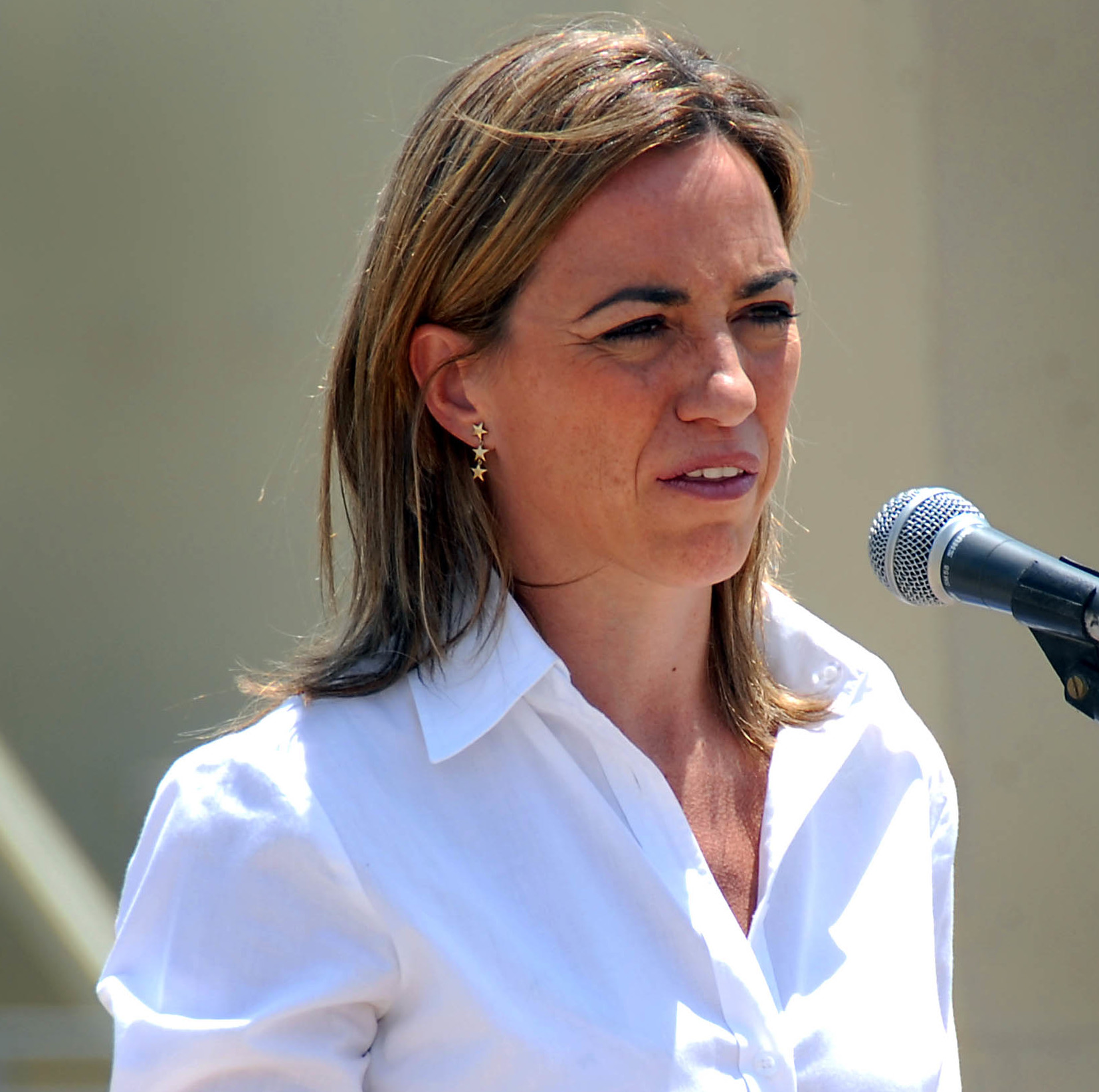 Qala-i-Naw, Afghanistan (July, 13th) Spanish Minister of Defense, Carme Chacón, visists the Spanish base in Qala i Naw and the Forward Operating Base in Sang-Atesh